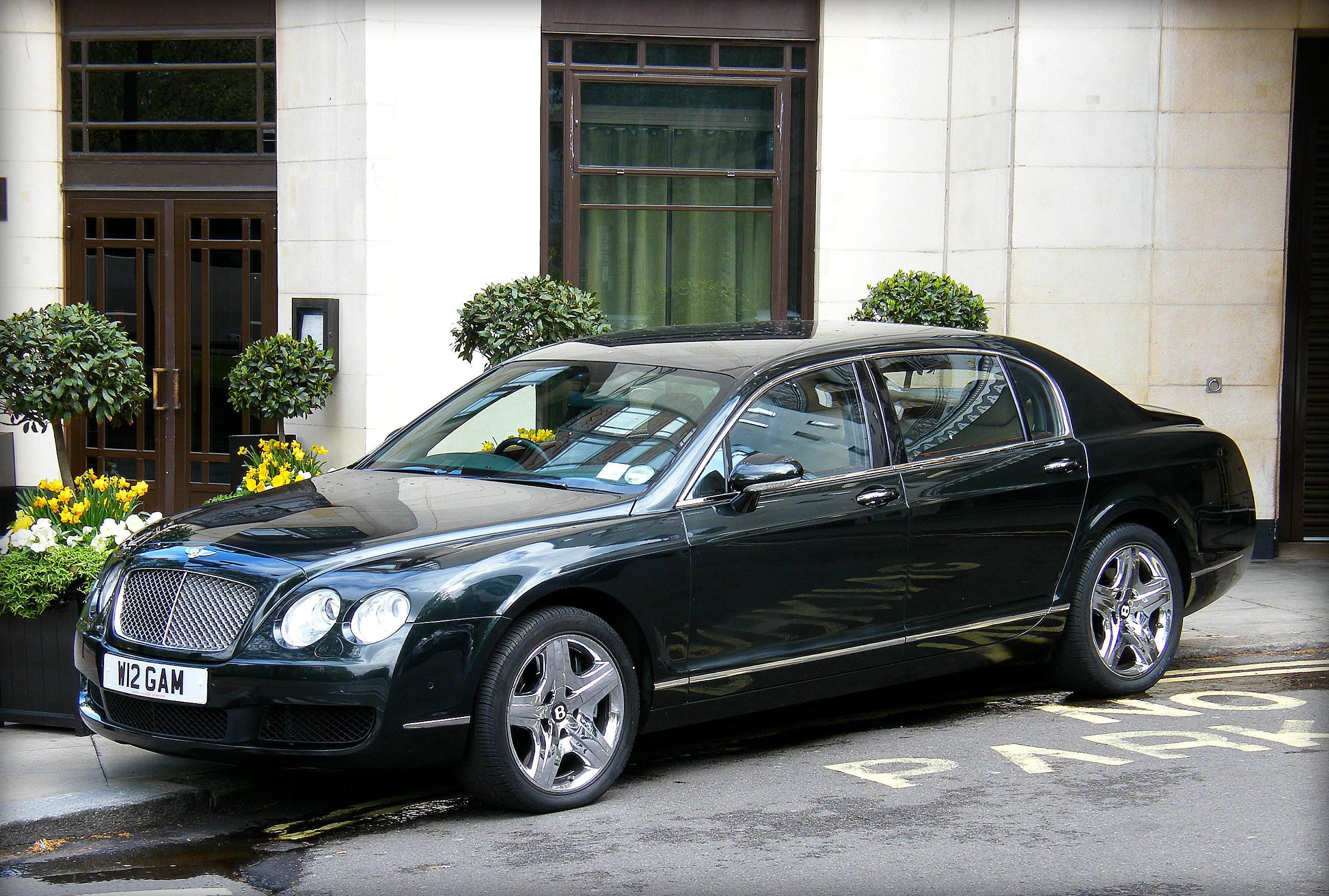 Black Bentley in front of the Dorchester Hotel in London Mayfair, England, United Kingdom